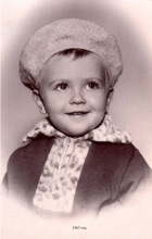 Dmitry Medvedev in 1967 aged approx. 2 years old